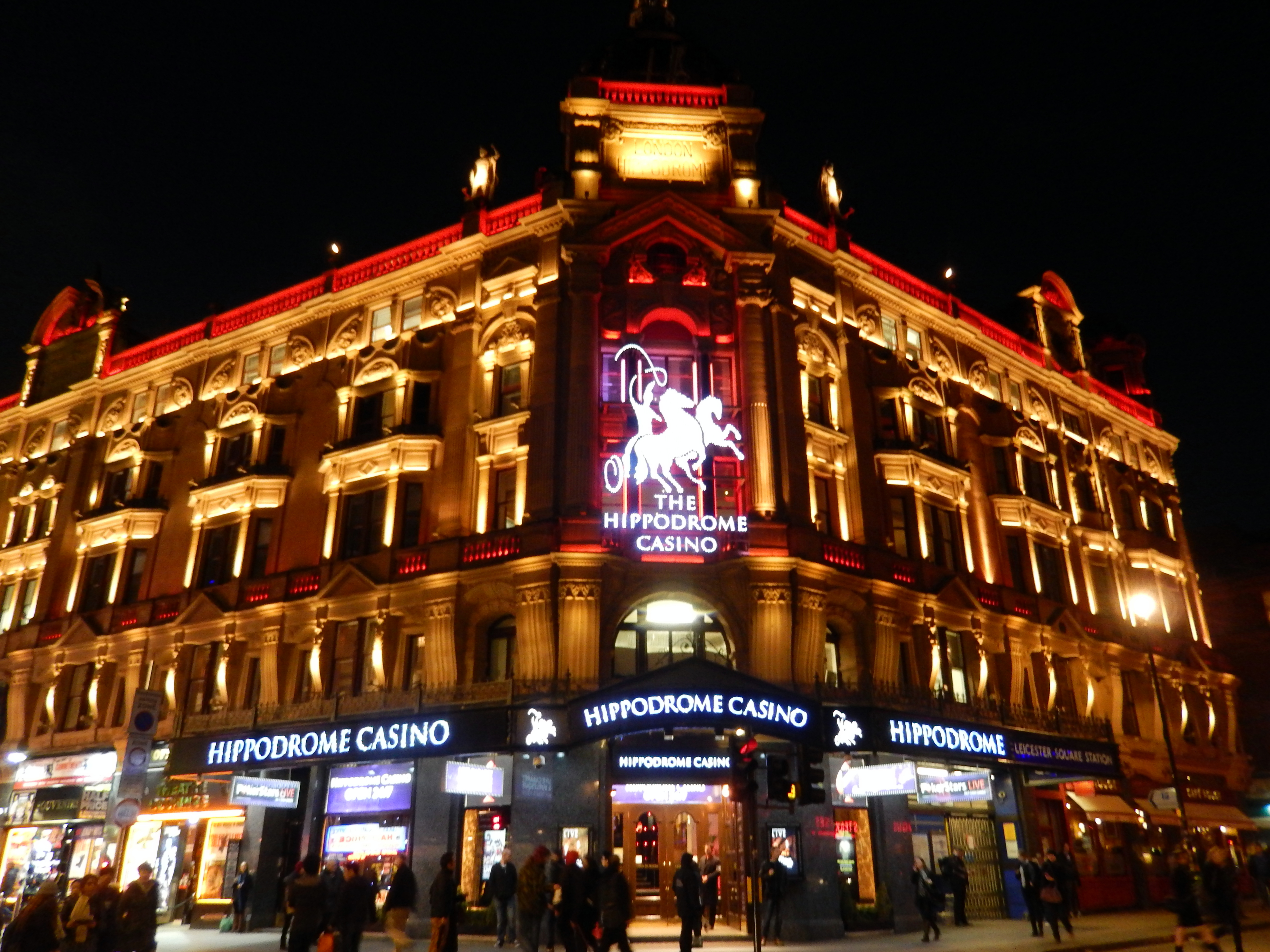 The Hippodrome Casino / Leicester Square Station